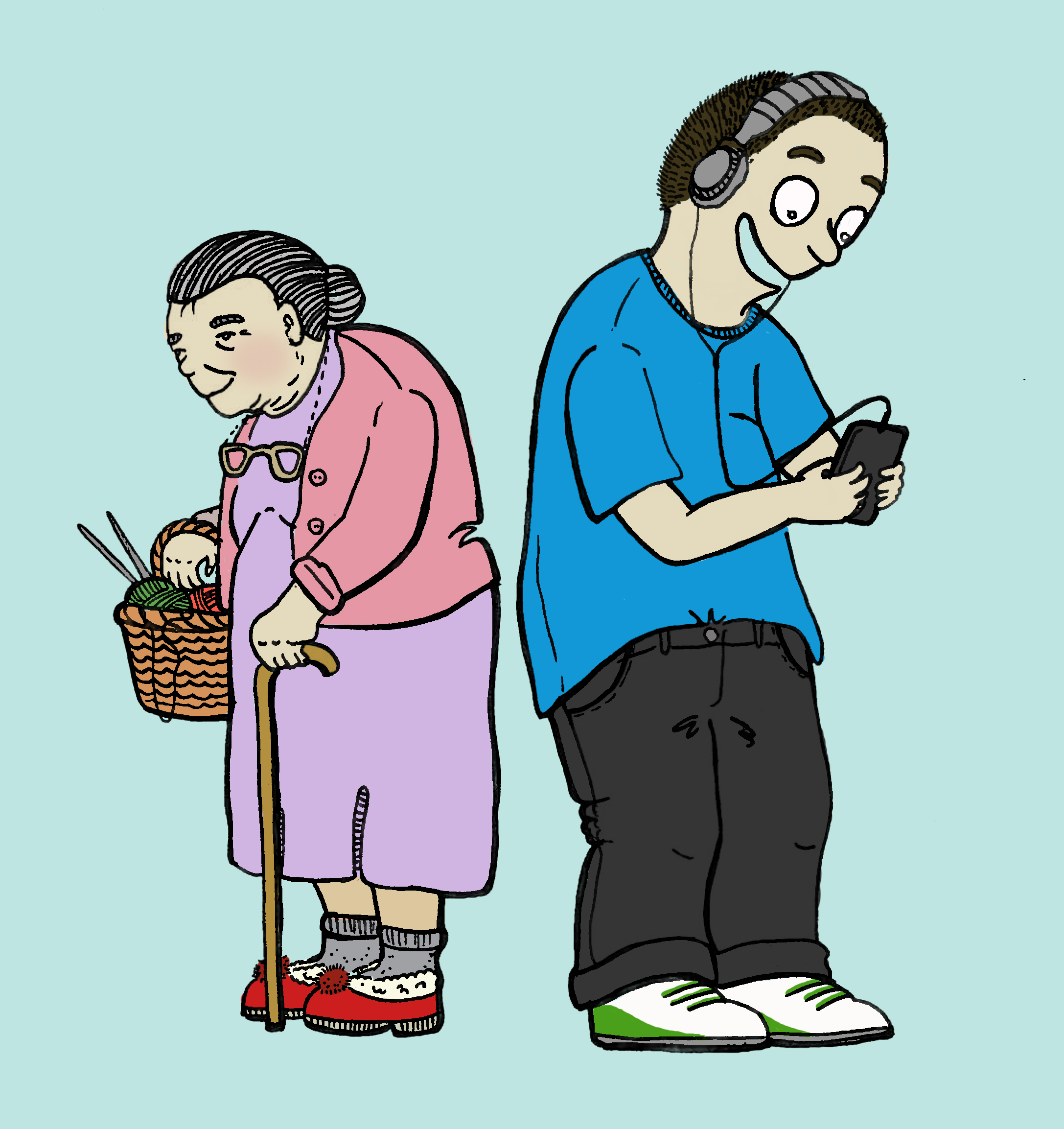 Illustration av generasjonskløft.